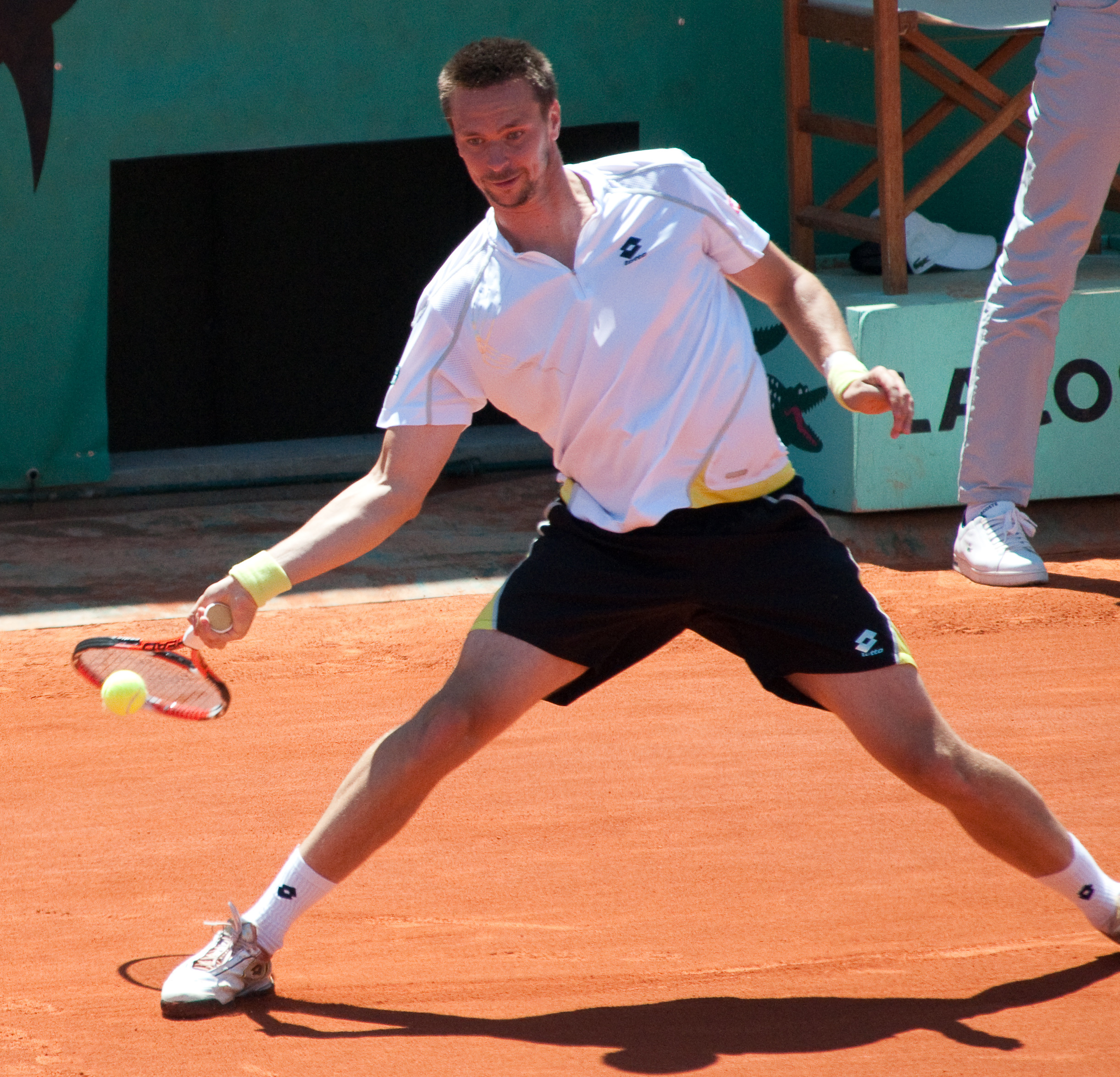 Robin Söderling at 2009 Roland Garros, Paris, France